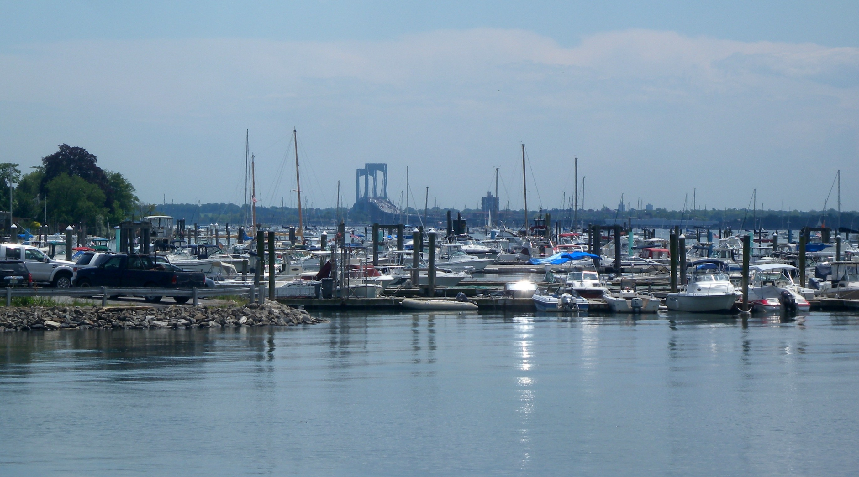 Looking southwest at marina and distant Throgs Neck Bridge on a sunny midday.